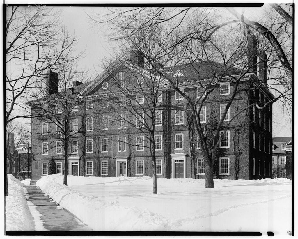 Hollis Hall, Harvard University, Cambridge, Massachusetts, USA. 1763 initial construction.